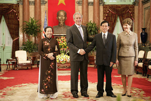 U.S. President George W. Bush and Mrs. Laura Bush join Viet President Nguyen Minh Triet and Mrs. Tran Thi Kim Chi in the Great Hall of the Presidential Palace Friday, Nov. 17, 2006, after arriving in Hanoi for the 2006 APEC Summit. White House photo by Eric Draper (details)